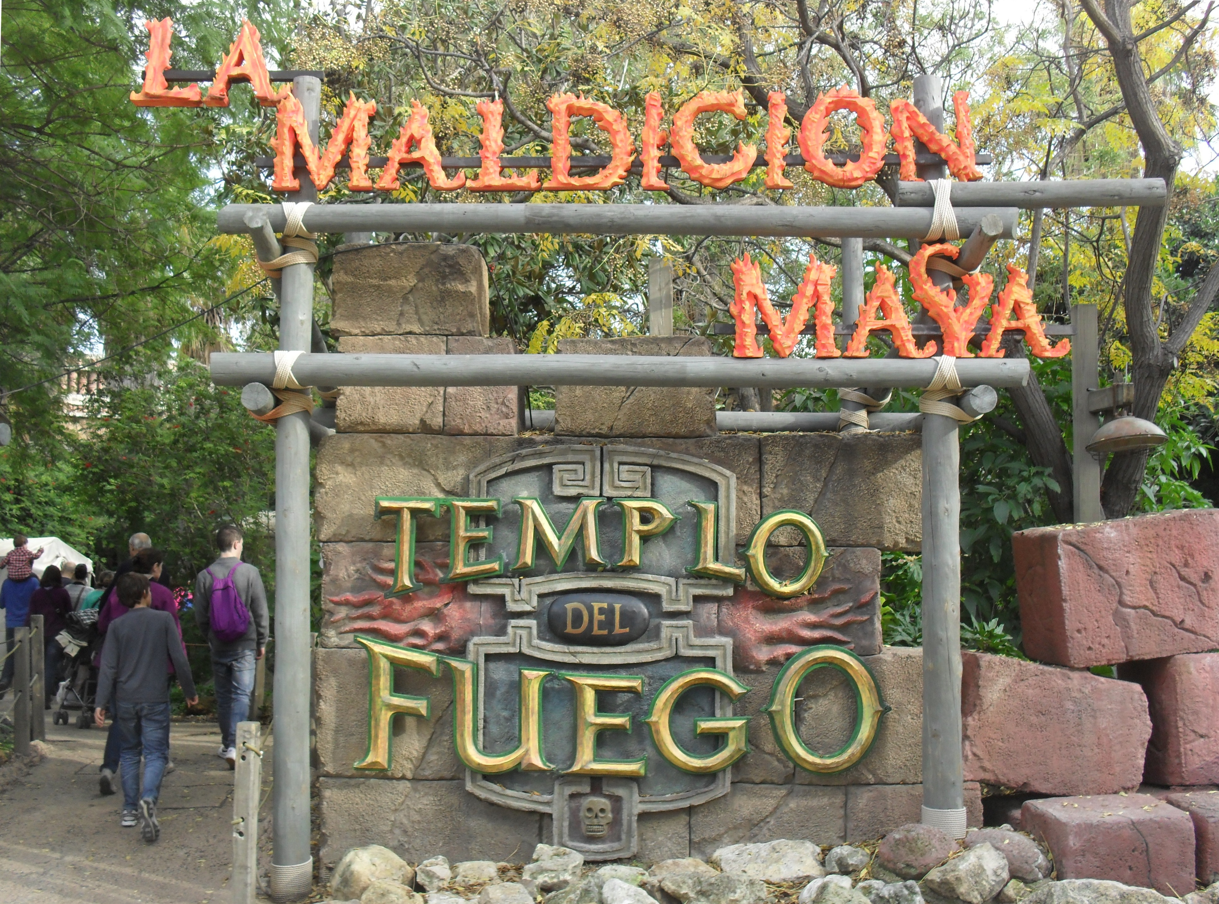 Entrance of the Templo Del Fuego, at PortAventura, Spain